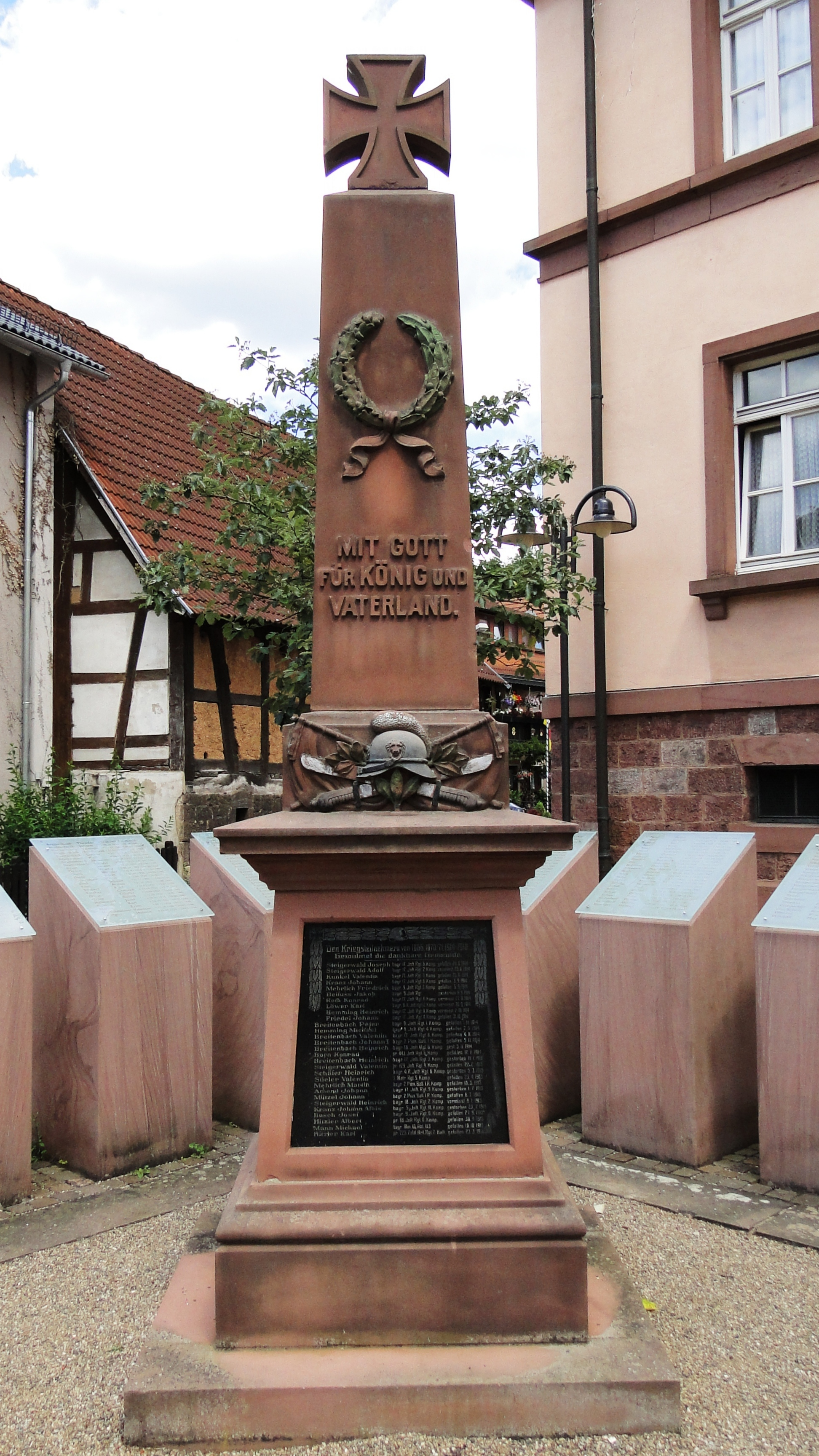 Memorial for the war dead, Partenstein, Franconia, Germany